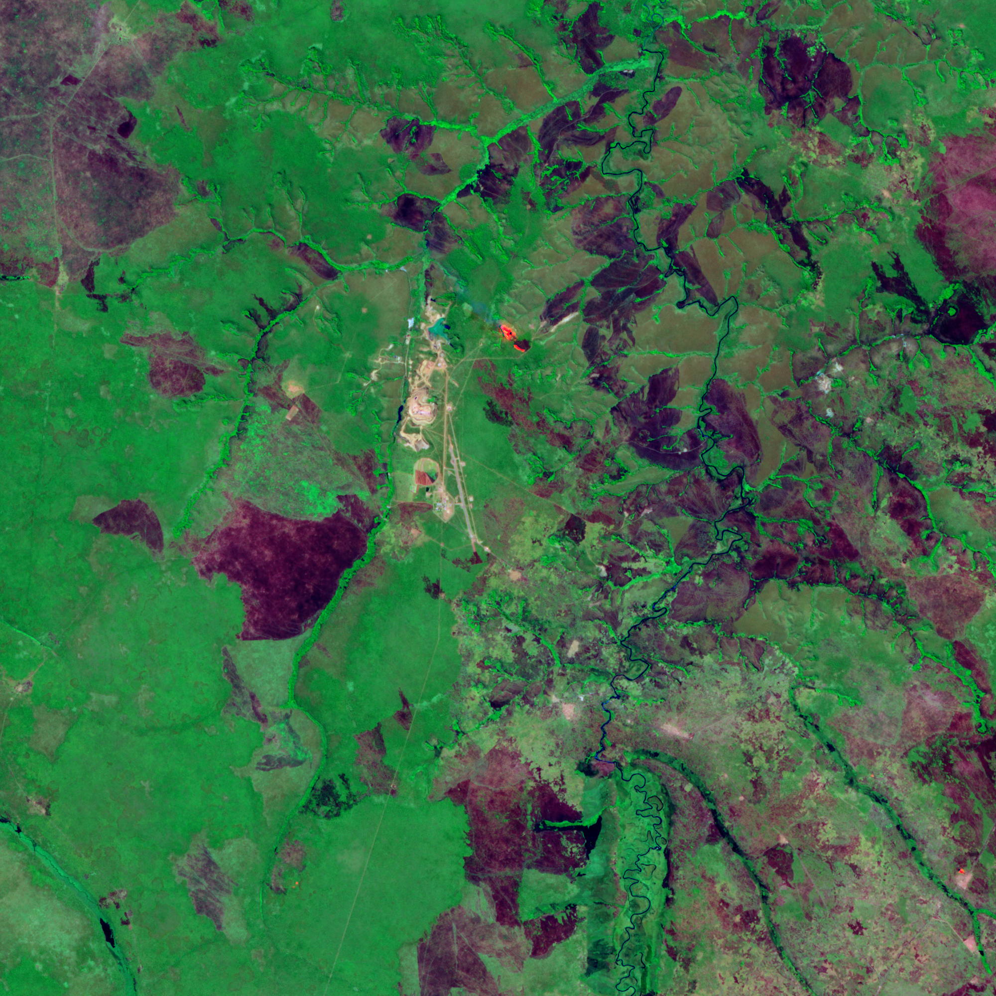 "In terms of surface area, the Catoca kimberlite pipe in Angola is the fourth-largest diamond-rich rock formation on Earth; despite its size, the mine was constructed with an aim of minimal environmental impact." and "Besides the Catoca diamond mine, there is an active fire burning northeast of the mine."